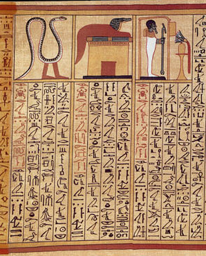 Author Unknown Description